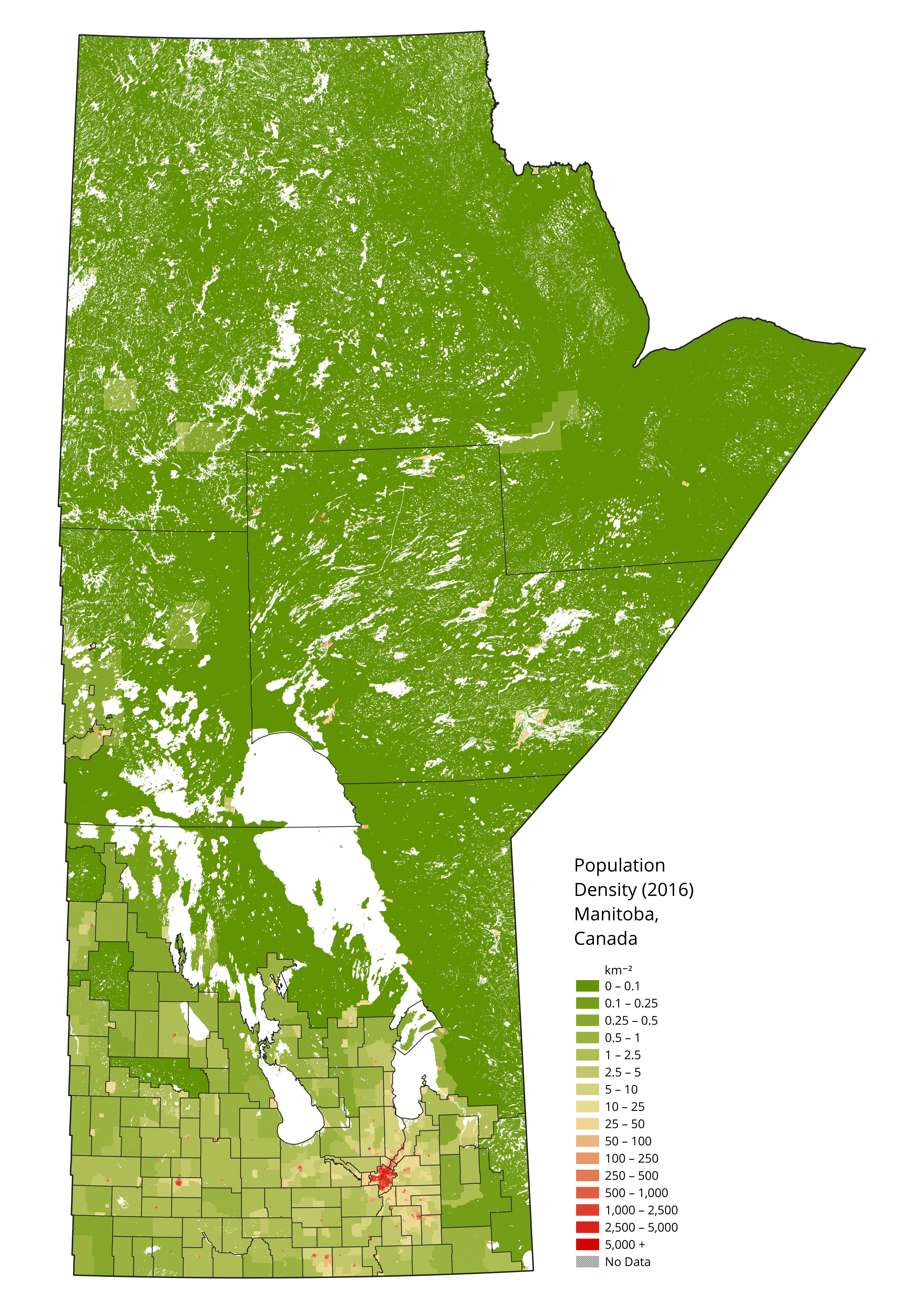 Population density map of Manitoba, Canada. Boundary open data and final counts from Canadian 2016 Census accessed on April 22 2018. Waterbodies from WWF HydroLAKES database.